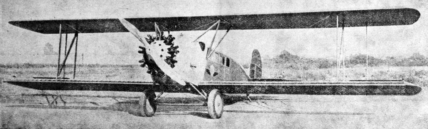 Timm Aircoach photo from L'Air November 15,1928